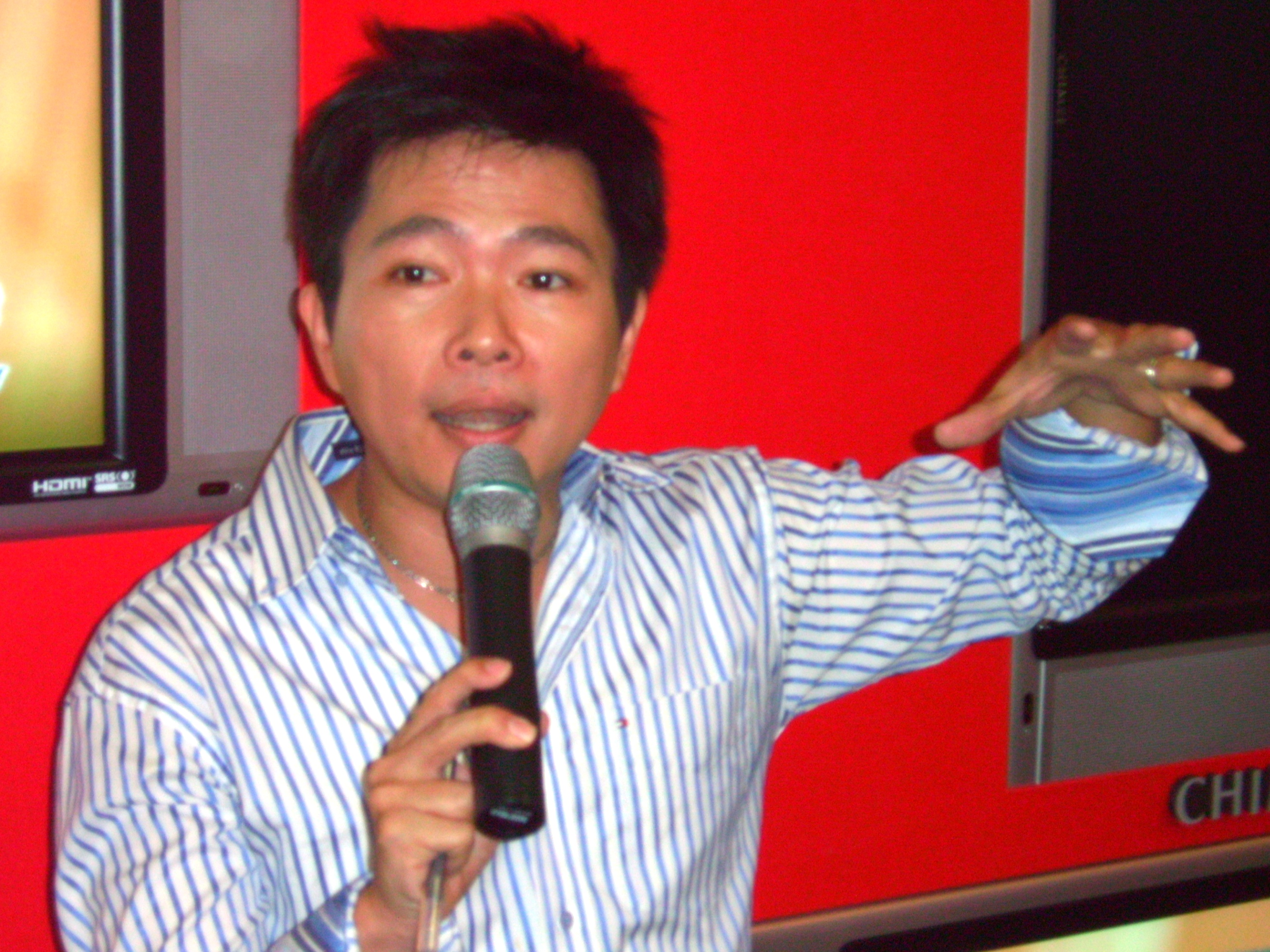 Max Y. H. Su, an anchor of Taiwan Television Enterprise, Ltd.